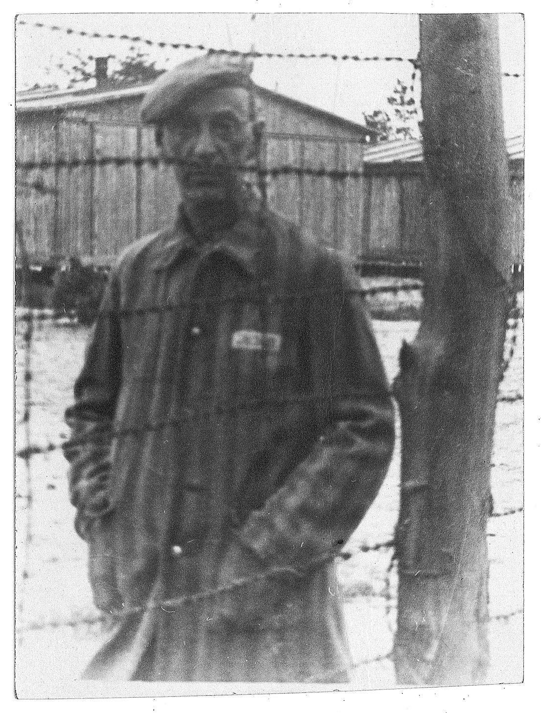 Osiride Brovedani photographed in Dora concentration camp